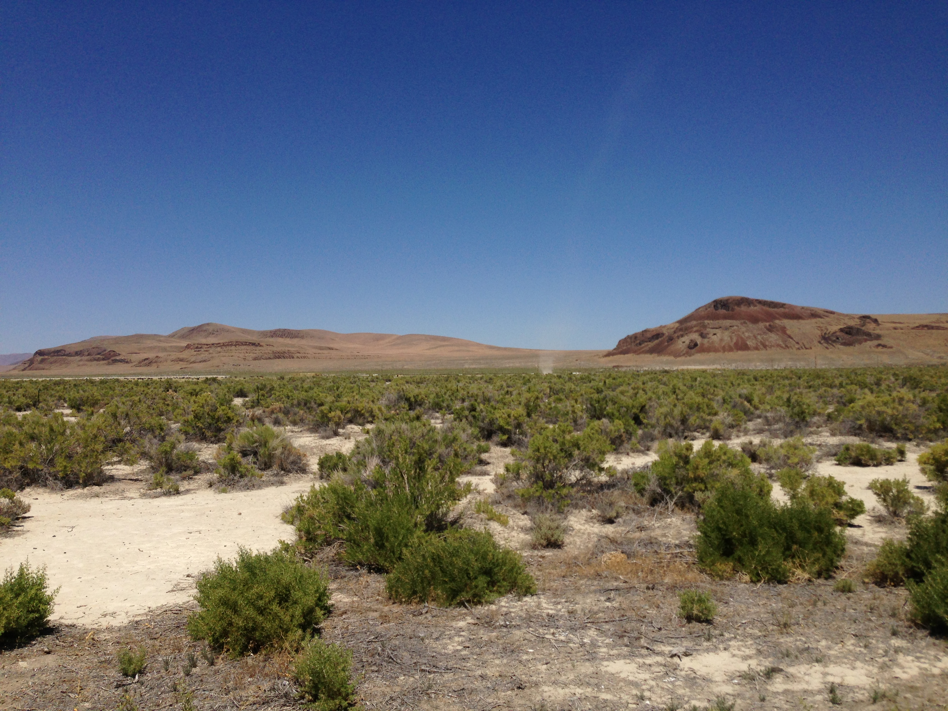 Desert vegetation and a dust devil along Nevada State Route 140 (Denio Road) near the Quinn River